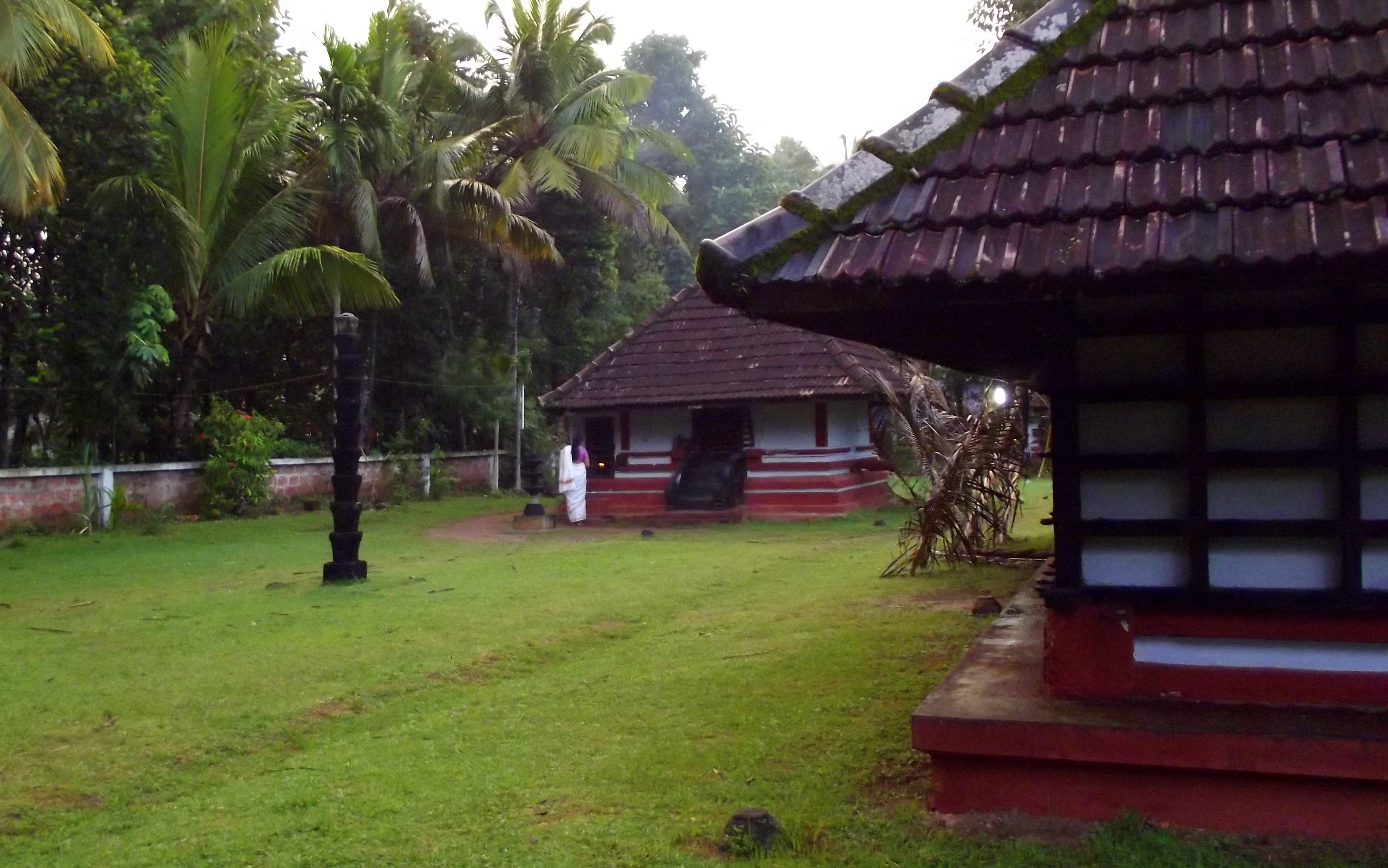 നീലംപേരൂർ പടയണി, ആലപ്പുഴ This media file is uploaded with Malayalam loves Wikimedia event - 3.